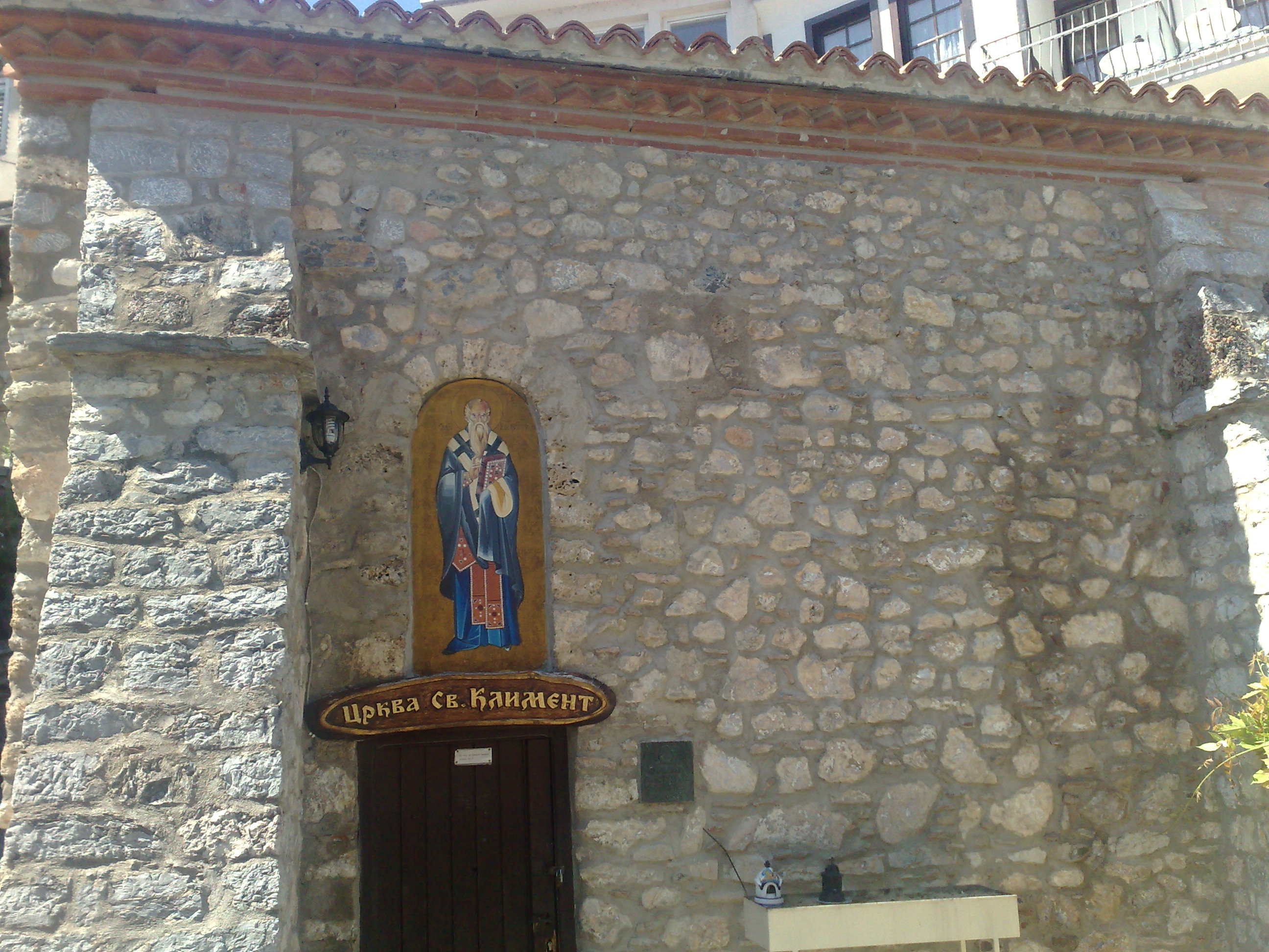 Sv. Kliment church in Ohrid, Macedonia